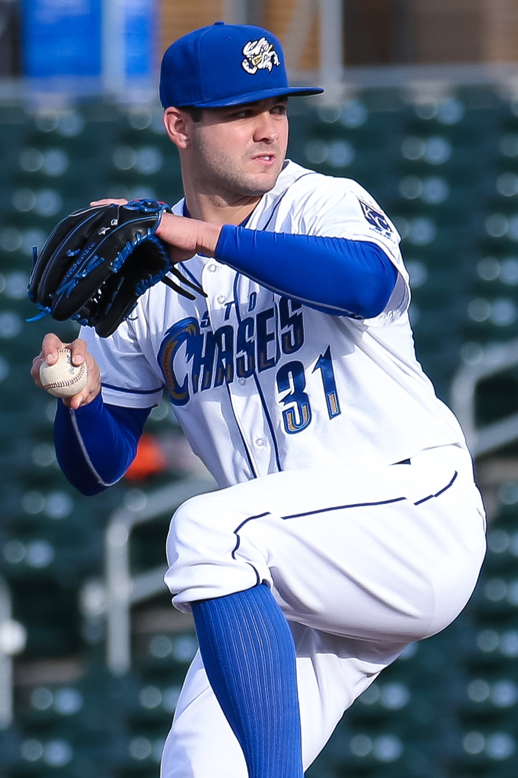 Minda Haas Kuhlmann | 2017 USAGE INSTRUCTIONS: You are welcome to share or publish to your own site or social media account, but you MUST credit me, Minda Haas Kuhlmann, or by my Twitter handle (@minda33) or Instagram (minda.haas).